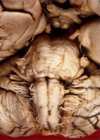 Human brainstem - anterior view